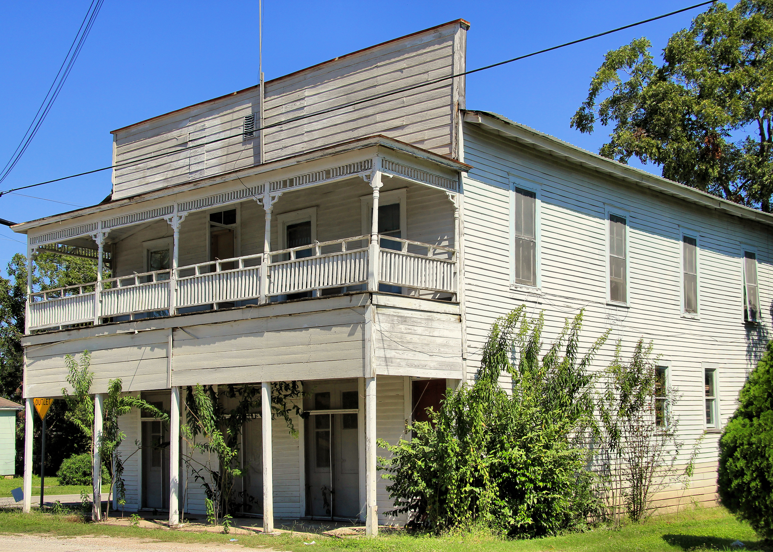 The McCabe Building in Victoria, Texas, United States. The building was listed on the National Register of Historic Places on December 19, 1986. The building is scheduled for demolition in Oct 2013 due to loss of structural integrity.